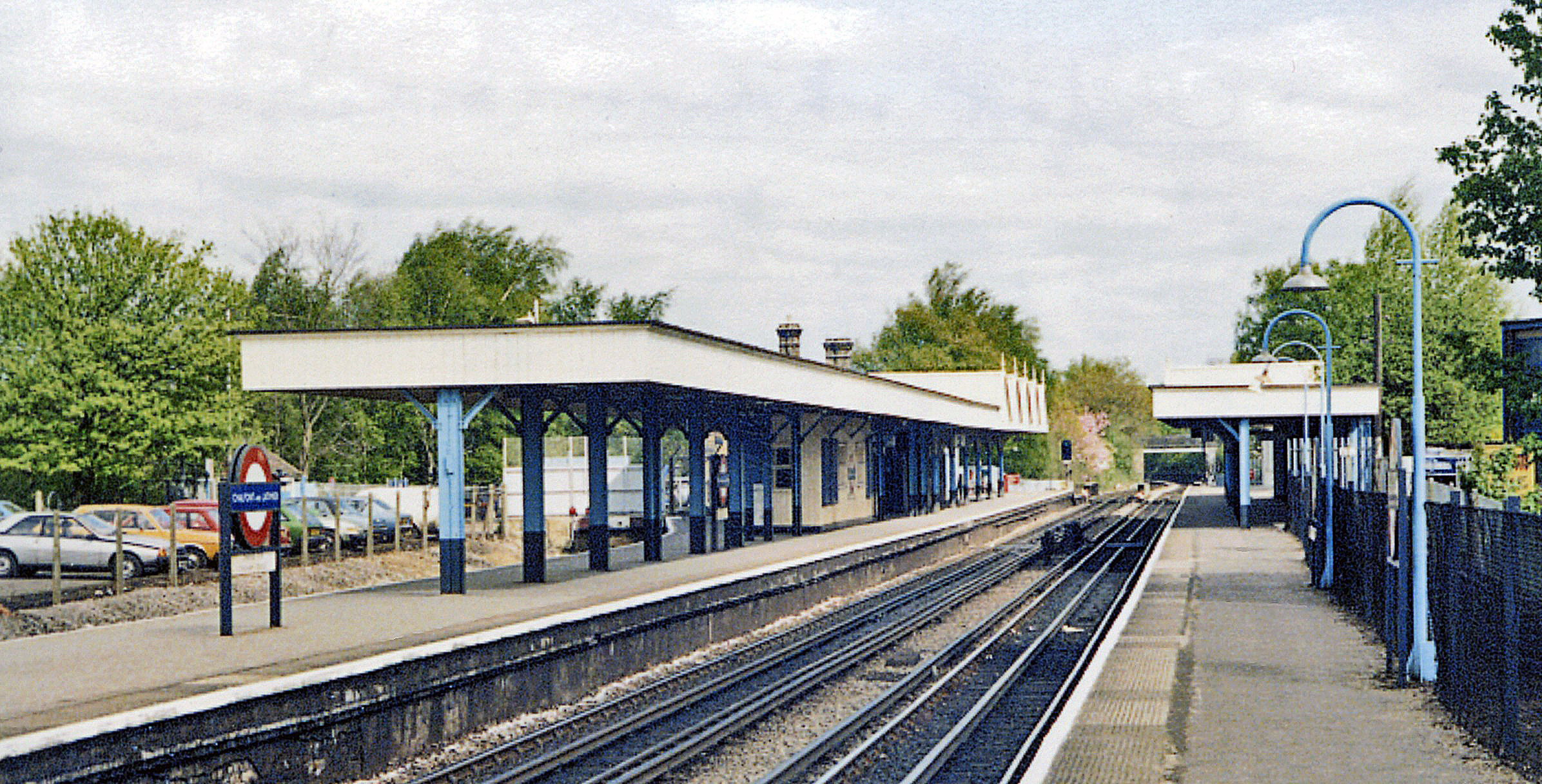 Chalfont & Latimer station, 1984. View SE, towards Rickmansworth and London (Baker Street and Marylebone): ex-Metropolitan & Great Central Joint main line, to Aylesbury, Leicester and the North, junction of the branch to Chesham. The electrification of the London Transport ex-Metropolitan line from Baker Street was extended to Amersham (and Chesham) on 12/9/60 and services to Aylesbury reverted to steam, then Diesel trains from Marylebone, the ex-GC main line to the north having been closed in 1966.